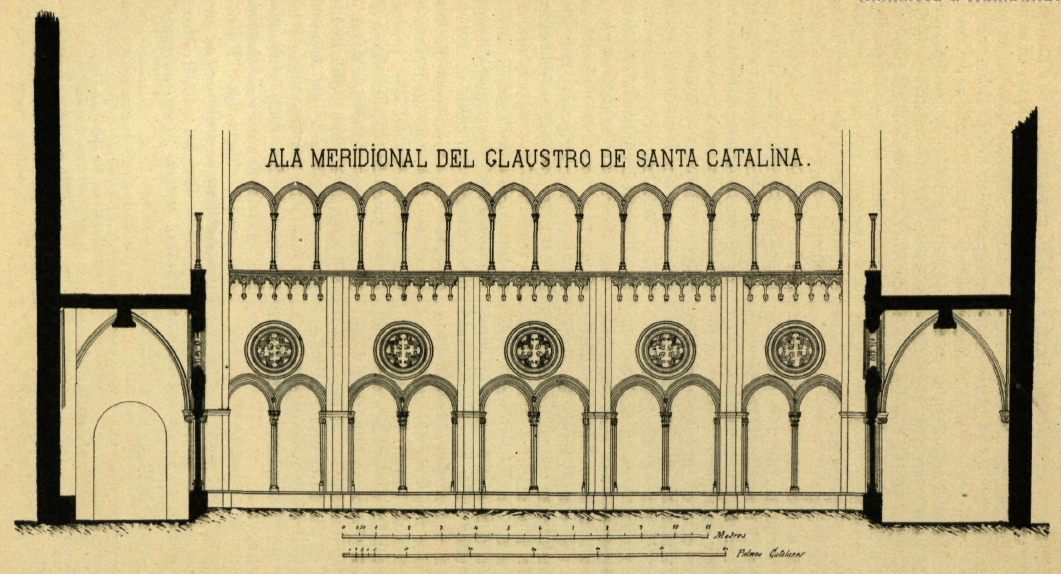 Drawing depicting the side view of the cloister of the convent of Santa Caterina in Barcelona (missing)